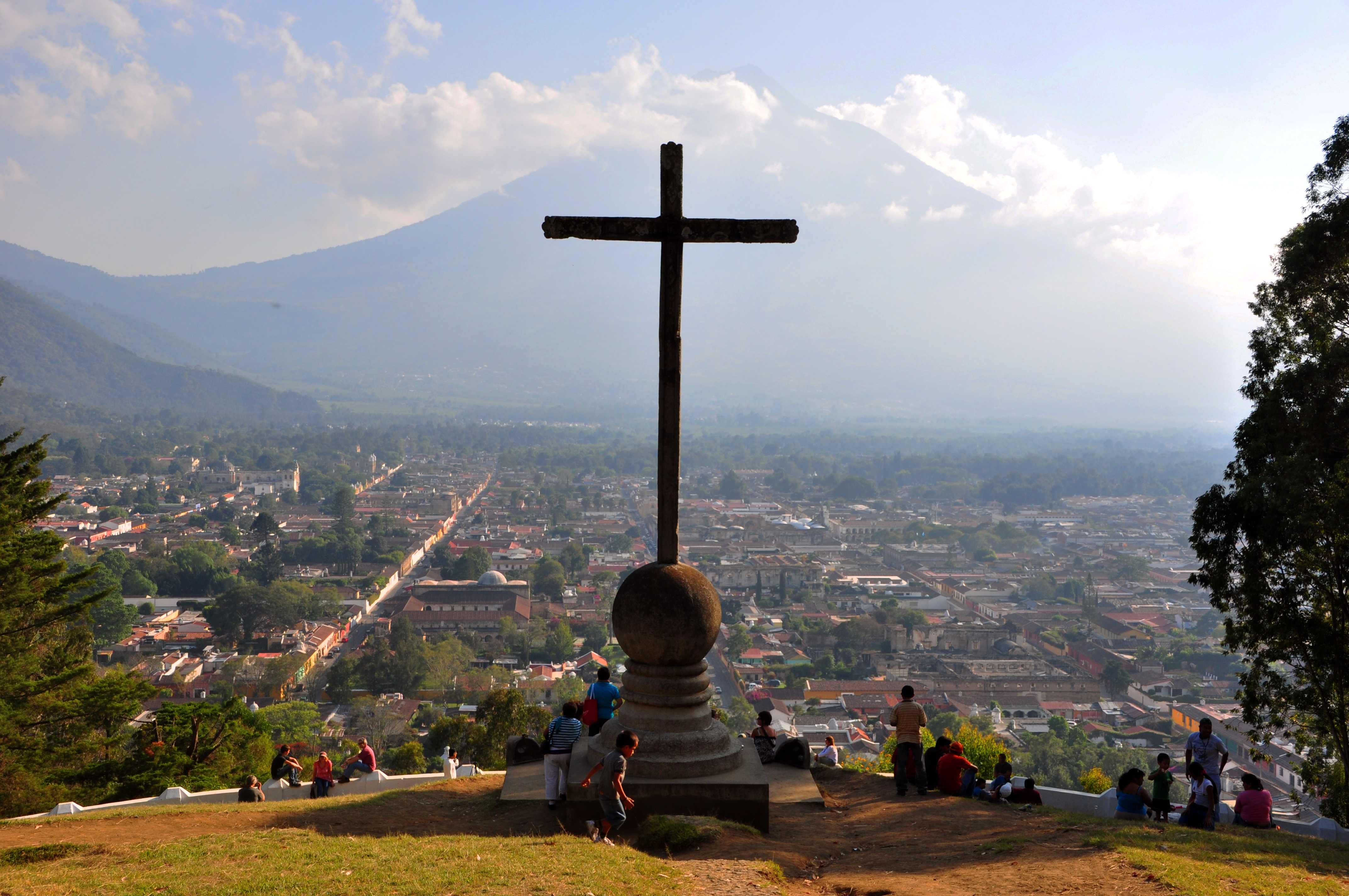 Hill of the Cross, Antigua, Guatemala, 2009